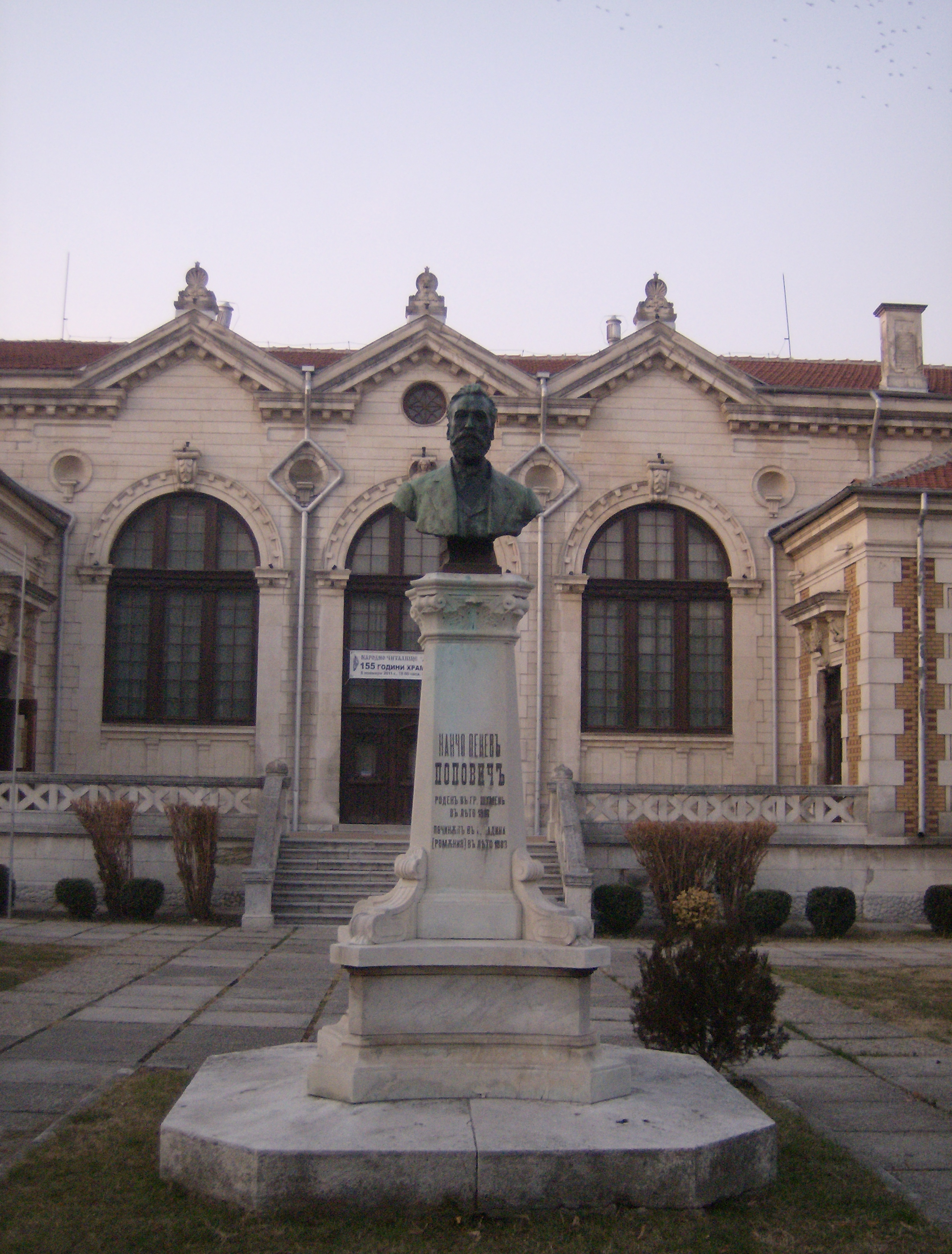 Nancho Popovich Monument